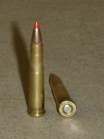 .22 Hornet ammunition with 40 grain Hornady VMax bullet